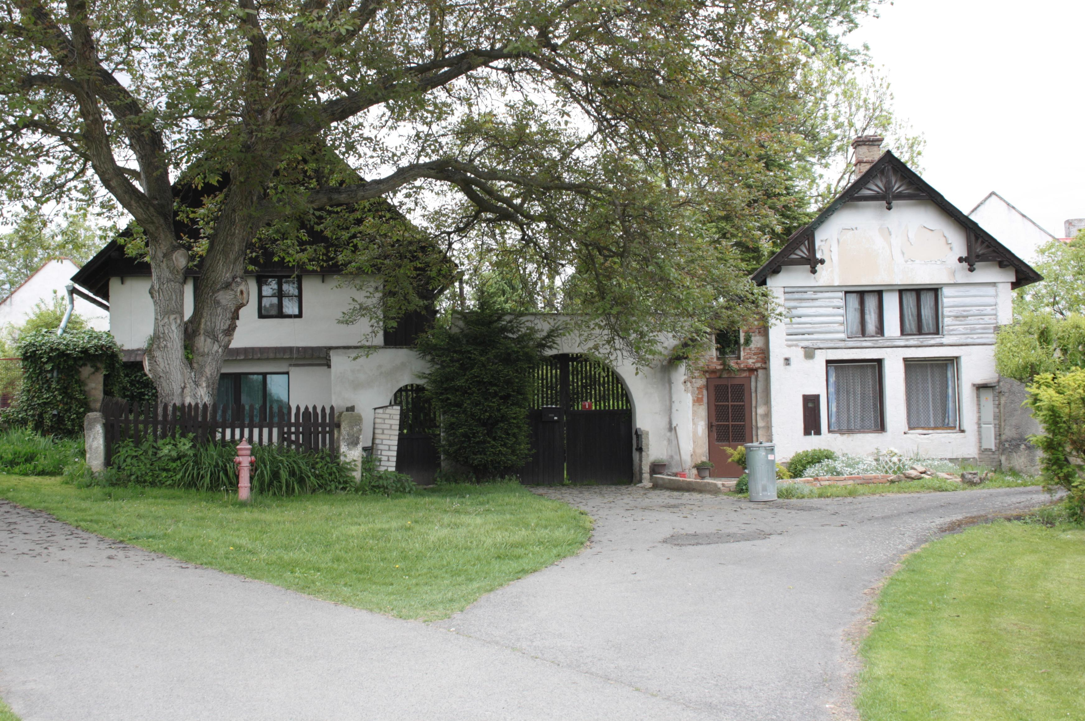 Boreč, Mladá Boleslav District, Central Bohemian Region, Czech Republic This photograph was taken with a DSLR from WMCZ's Camera grant. Project: Fotíme Česko